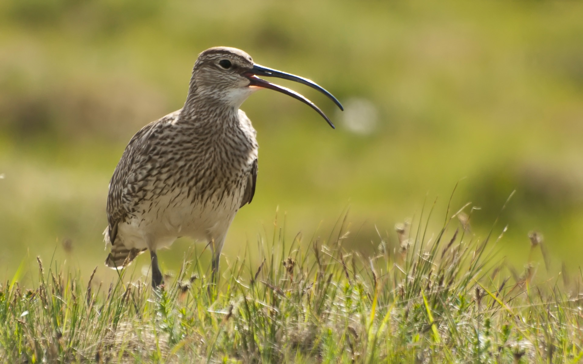 Numenius phaeopus, Kotvöllur, Iceland.